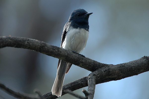 Leaden Flycatcher (Myiagra rubecula)